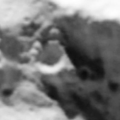 Derivative image. Lunar south pole zoom-in. Handle feature on south pole of the moon.